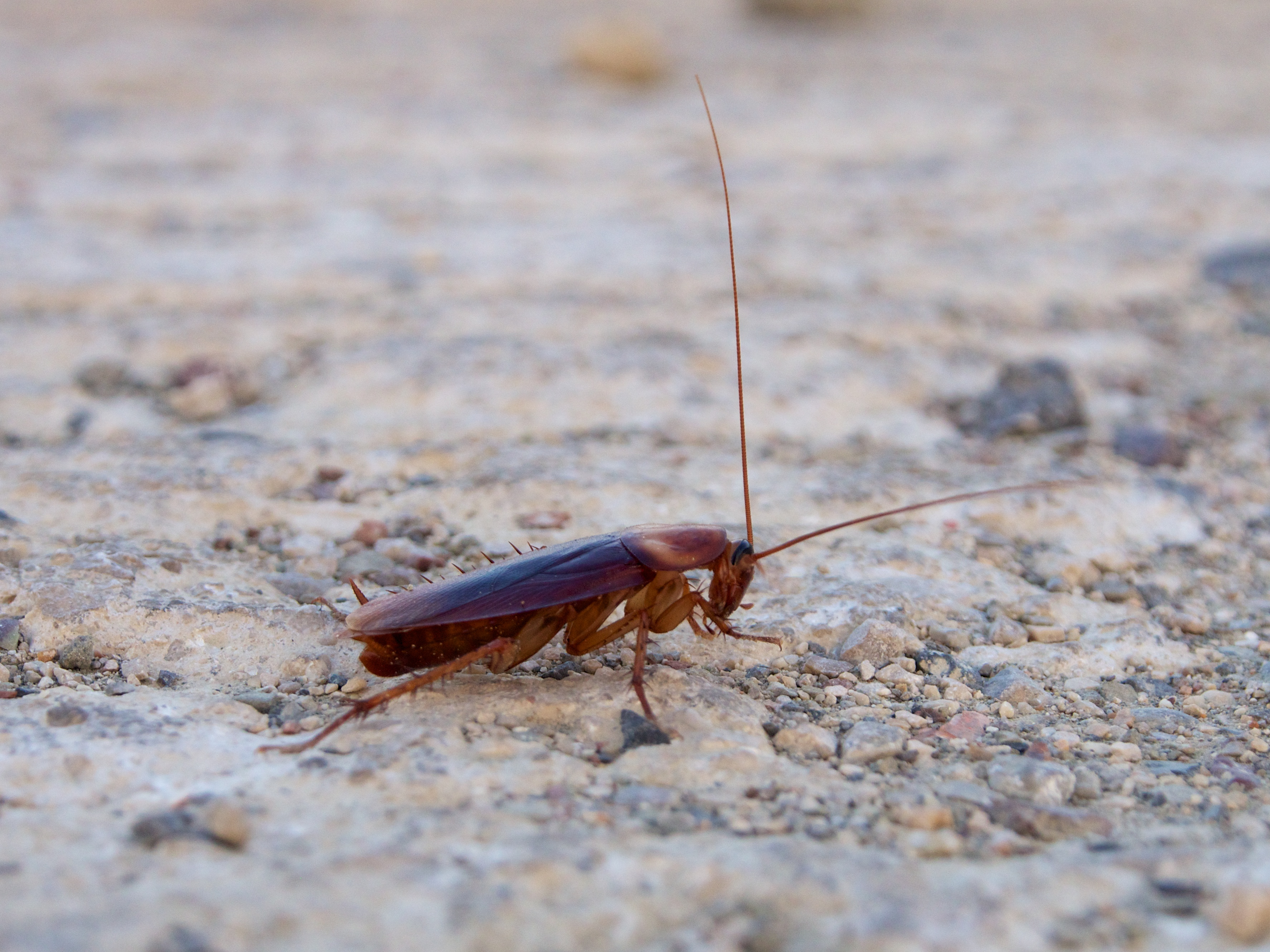 American cockroach (Periplaneta americana)